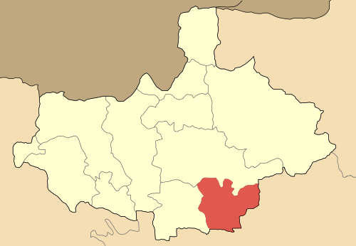 Locator map of Gallikou municipality (Δήμος Γαλλικού) at Kilkis perfecture, Greece.